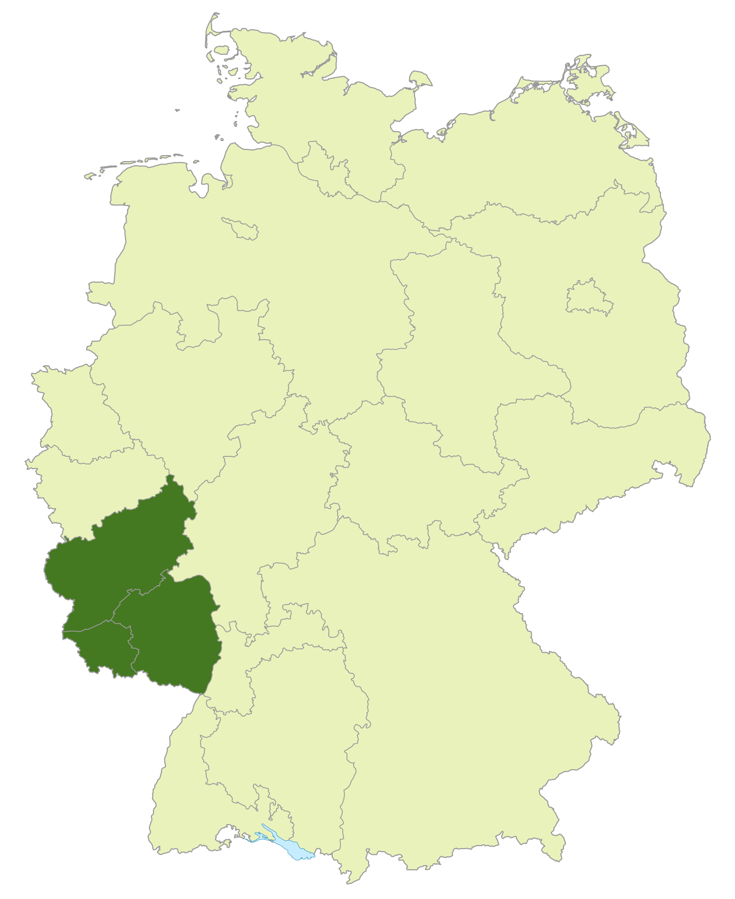 Map of regional soccer association of Südwestdeutschland, Germany